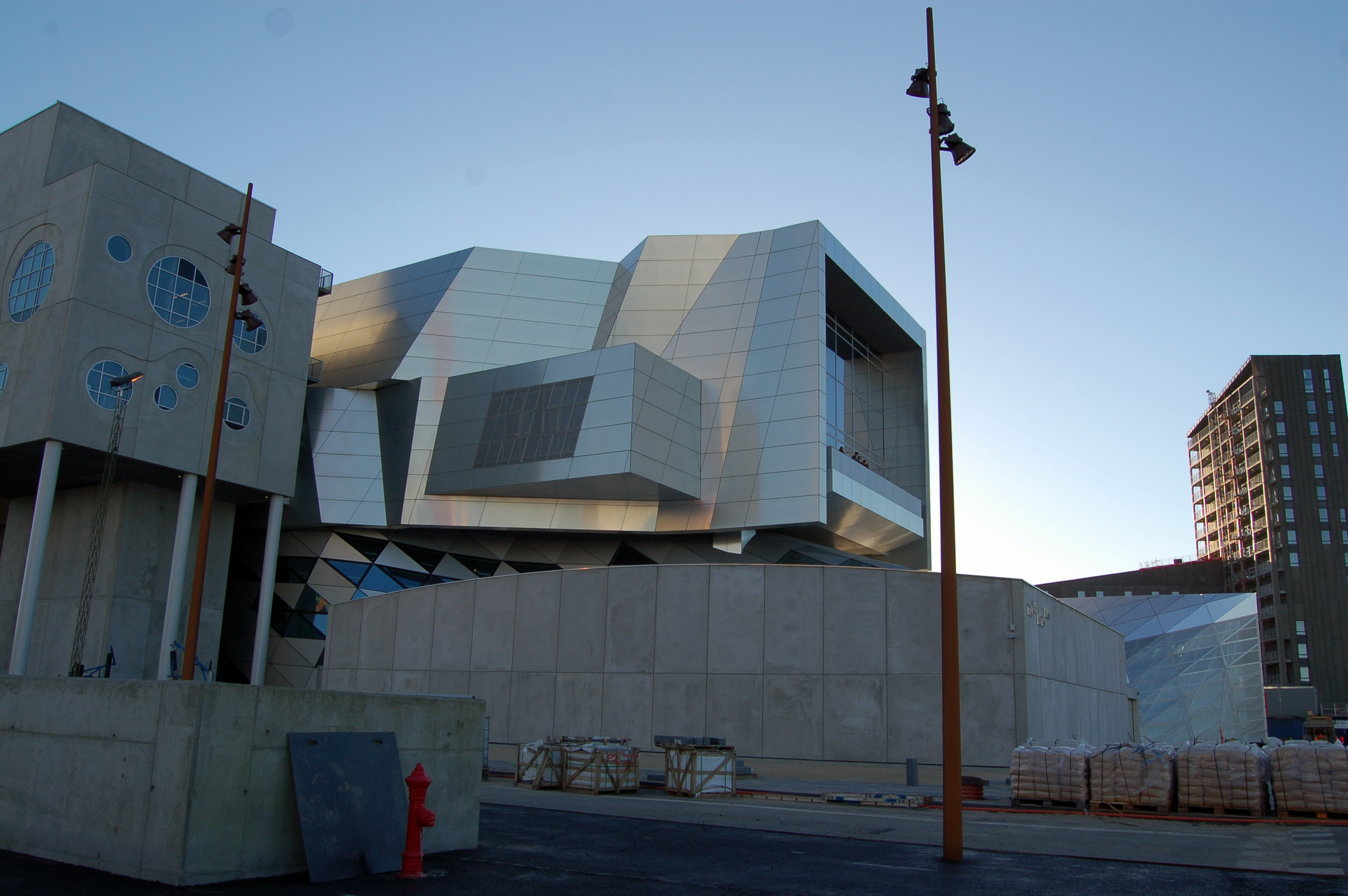 The front of House of Music in Aalborg